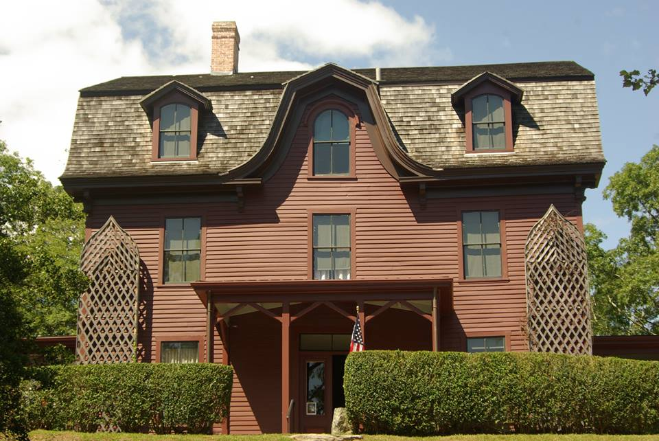 Edward Everett Hale House in Matunuck, a seaside village of South Kingstown, Rhode Island